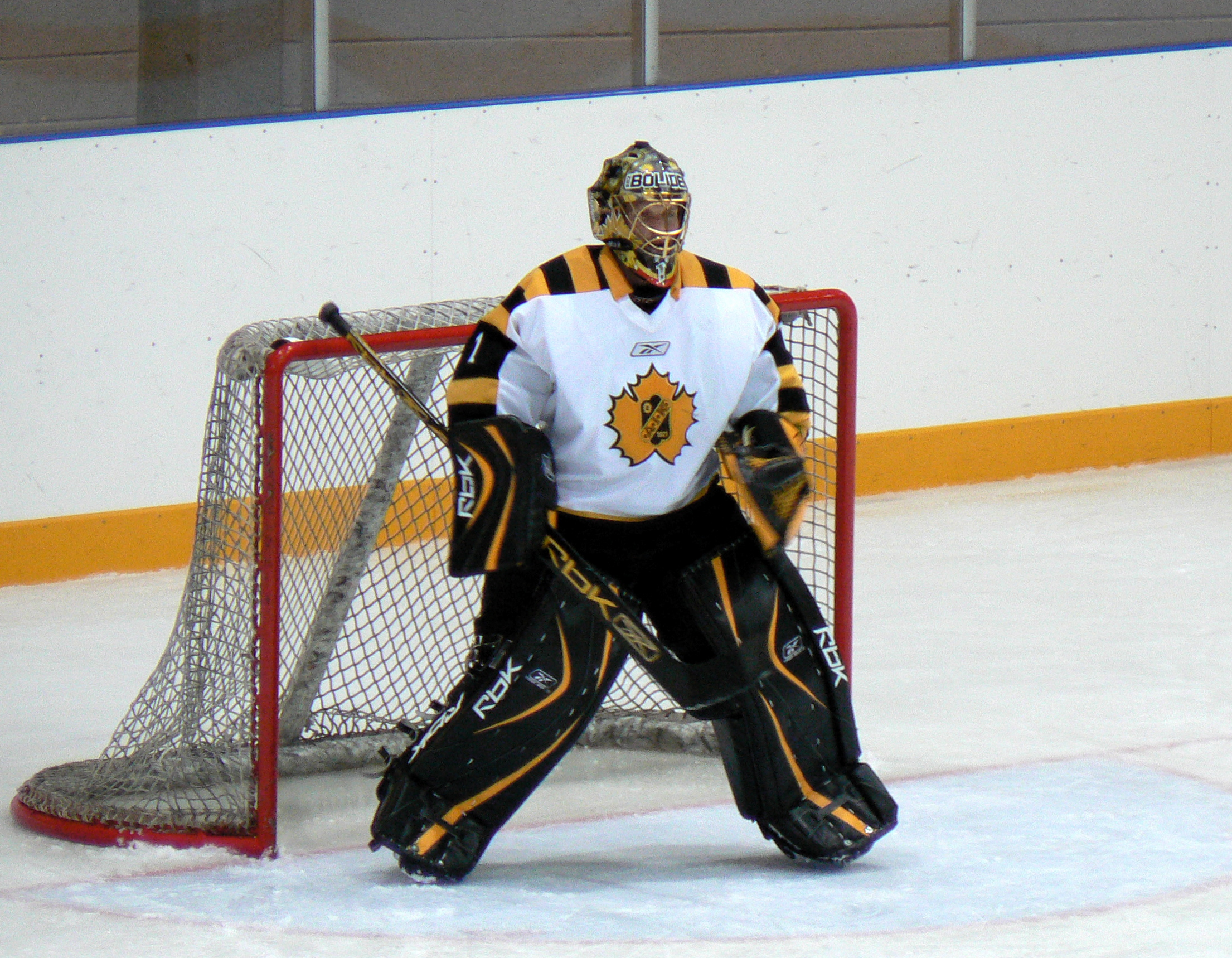 Swedish ice hockey goaltender Andreas Hadelöv of Skellefteå AIK in the 2007 Tampere Cup.